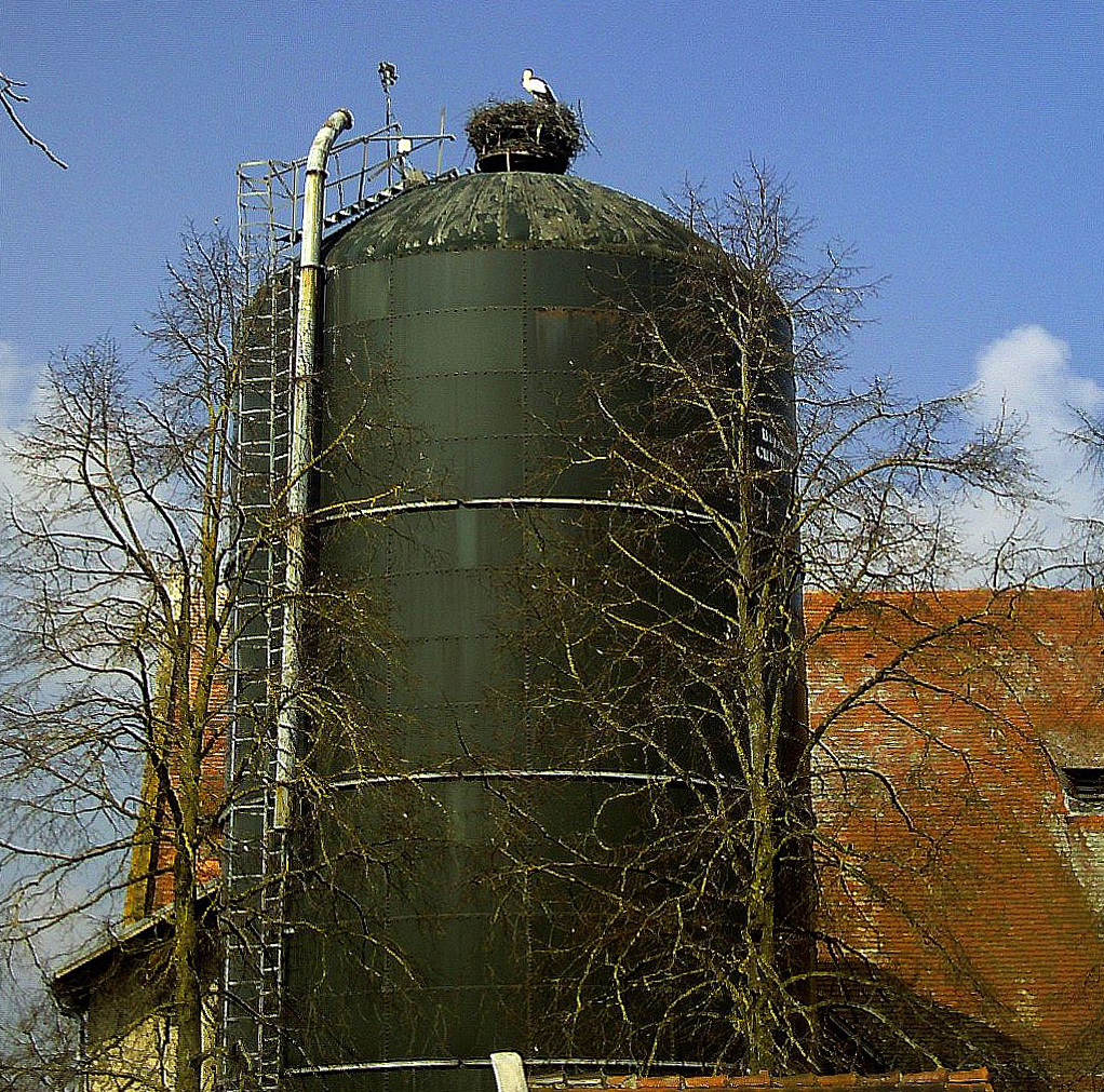 March Big Cigogne blanc Parc Natural Mundenhof Freiburg - Master Seasons Rhine Valley Photography 2013